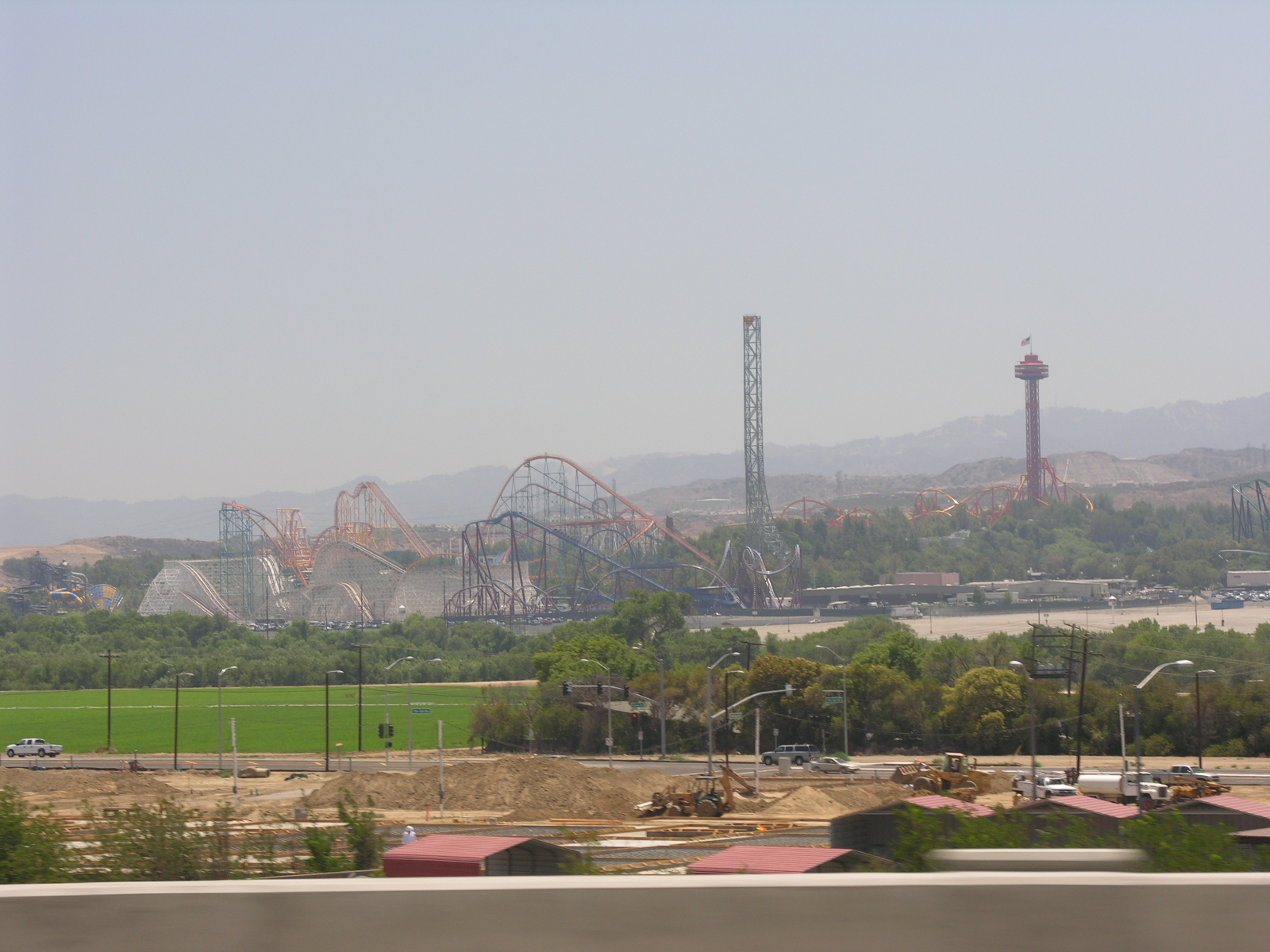 Skyline photograph of Six Flags Magic Mountain as seen from Interstate-5 South. Taken July 2007